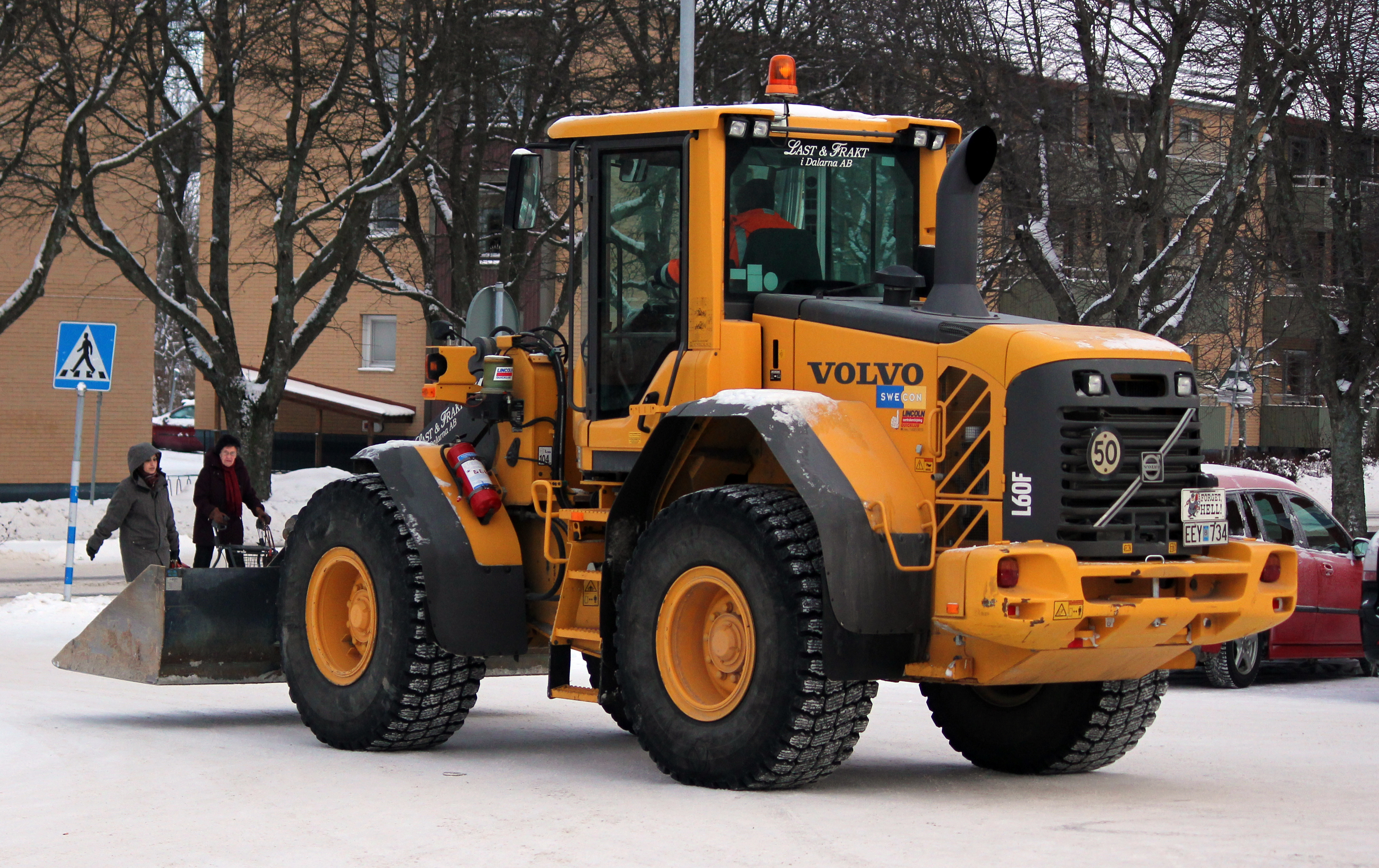 Volvo BM L60F loader at Liedl's parking lot in Avesta, Sweden.